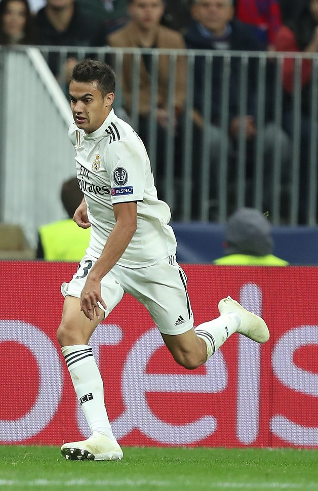 Sergio Reguilón